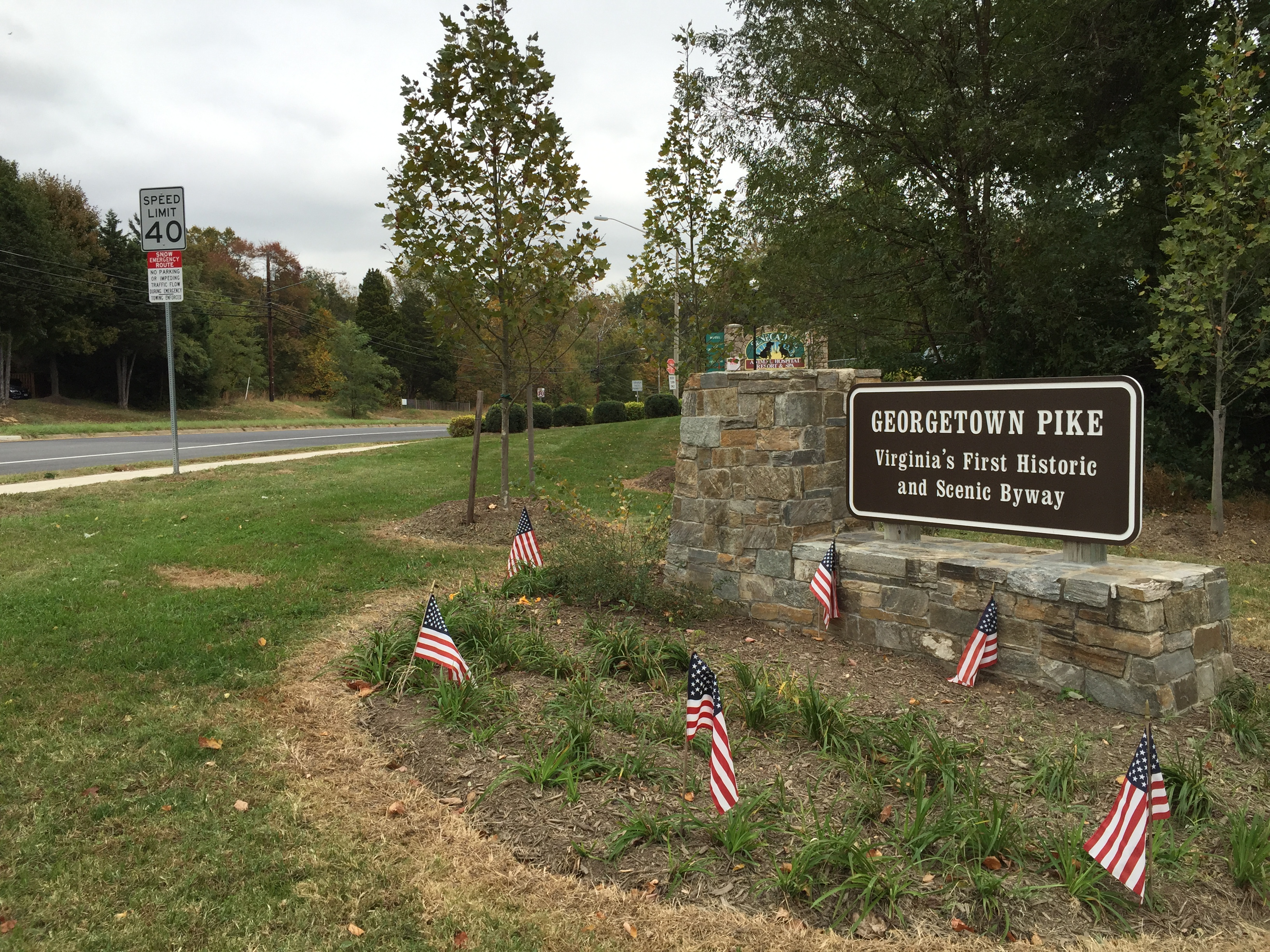 "Georgetown Pike - Virginia's First Historic and Scenic Byway" sign along eastbound Virginia State Route 193 (Georgetown Pike) at Seneca Road (Virginia State Secondary Route 602) in Great Falls, Fairfax County, Virginia